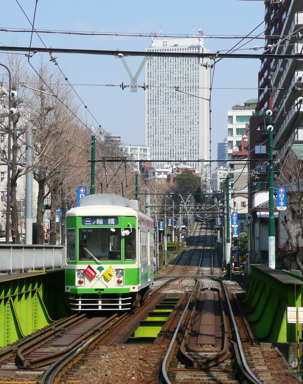 Tokyo Metropolitan Bureau of Transportation,Toden Arakawa Line (Takadobashi). /都電荒川線高戸橋付近（学習院下駅～面影橋駅間）